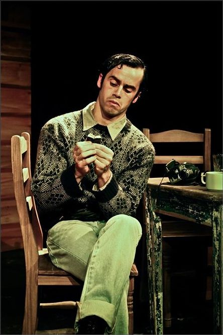 Sergio Podeley como Francisco Frías en Qué bueno que estes aca